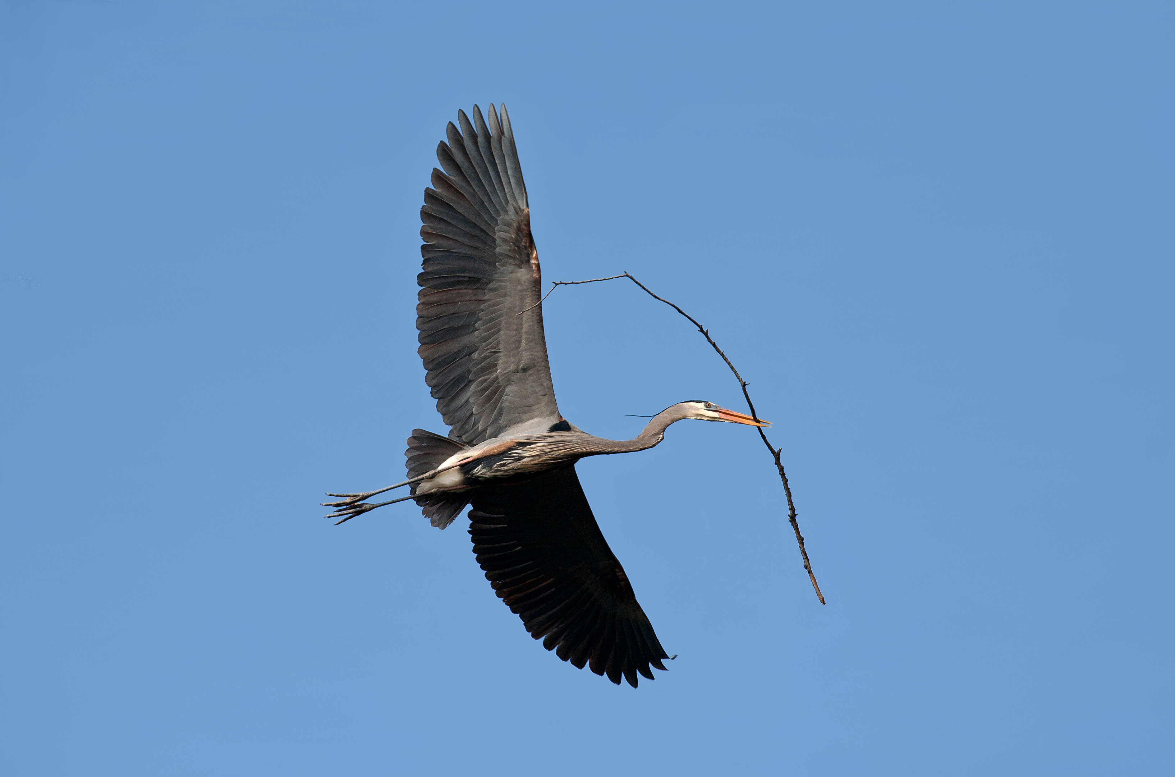 A Great Blue Heron flying with nesting material in Illinois, USA. There is a colony of about 20 heron nests in trees nearby.